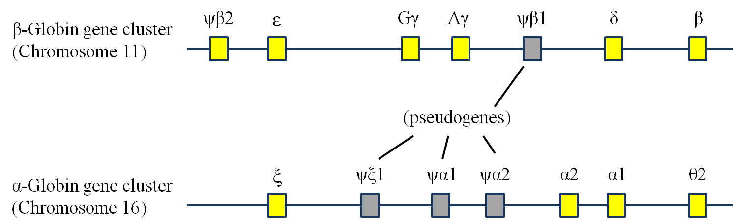 Globin Gene Cluster